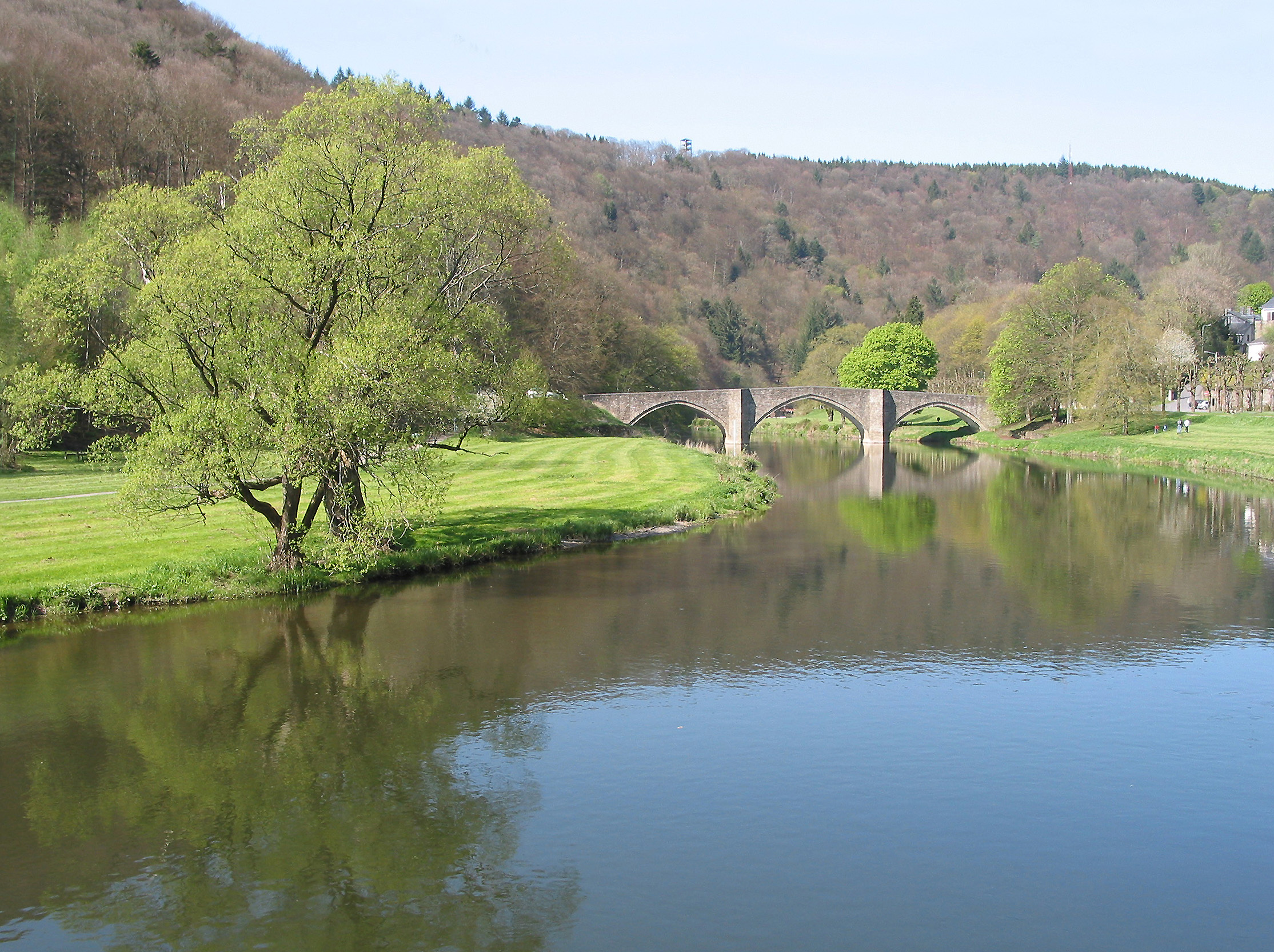 Bouillon (Belgium), the old bridge on the Semois river.